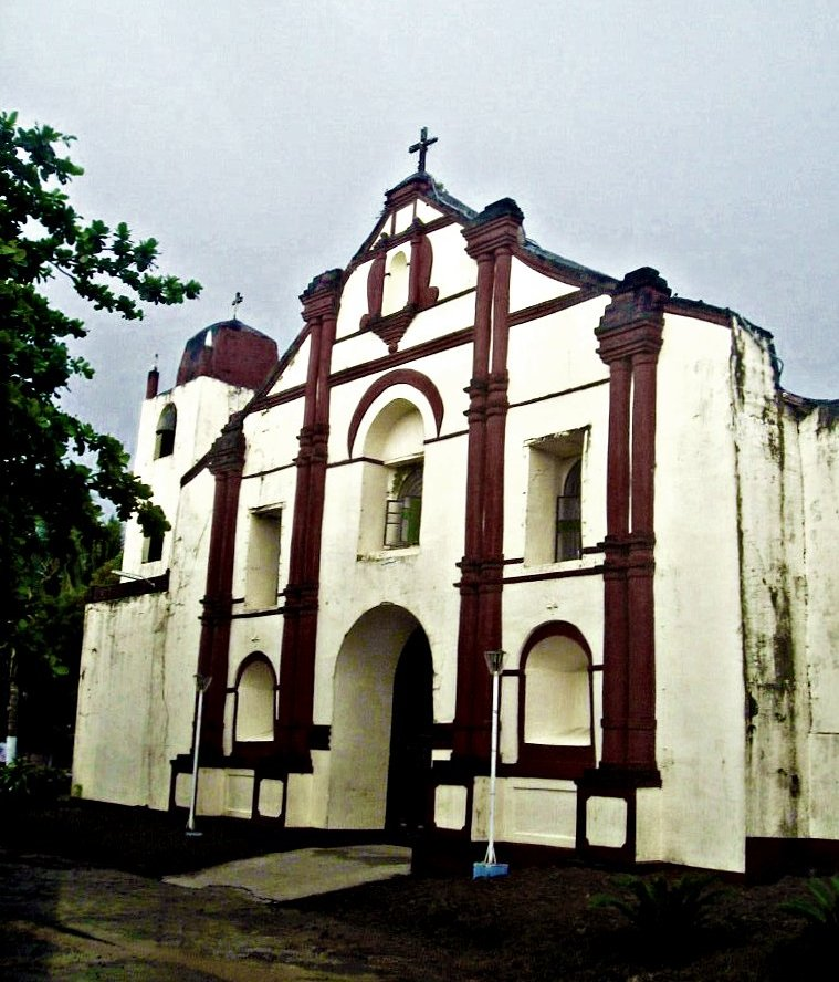 The church was probably built before 1739 and improved several times until 1898.